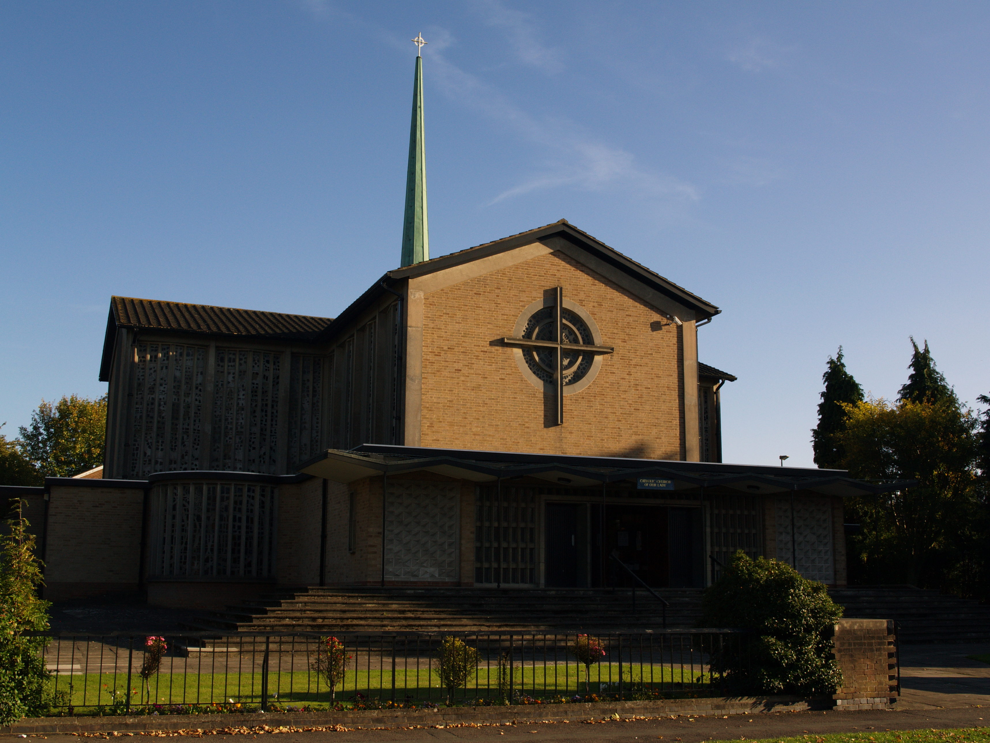 The RC Church of Our Lady, Valley Road, Lillington, Warwickshire.